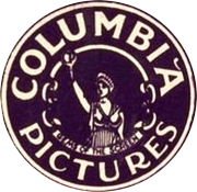 Logotype of Columbia Pictures used before 1936.